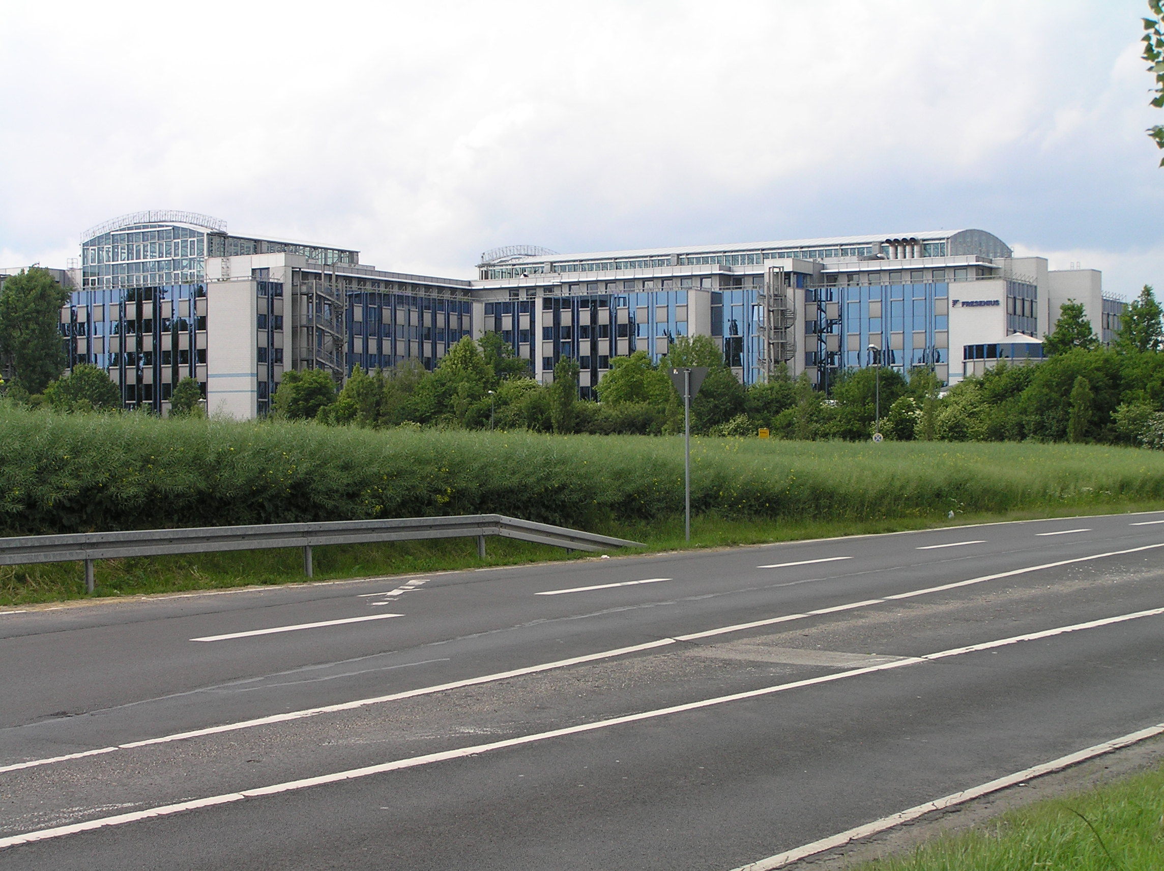 Headquarter of Fresenius SE in Bad Homburg vor der Höhe, Hesse, Germany, view from Motorway